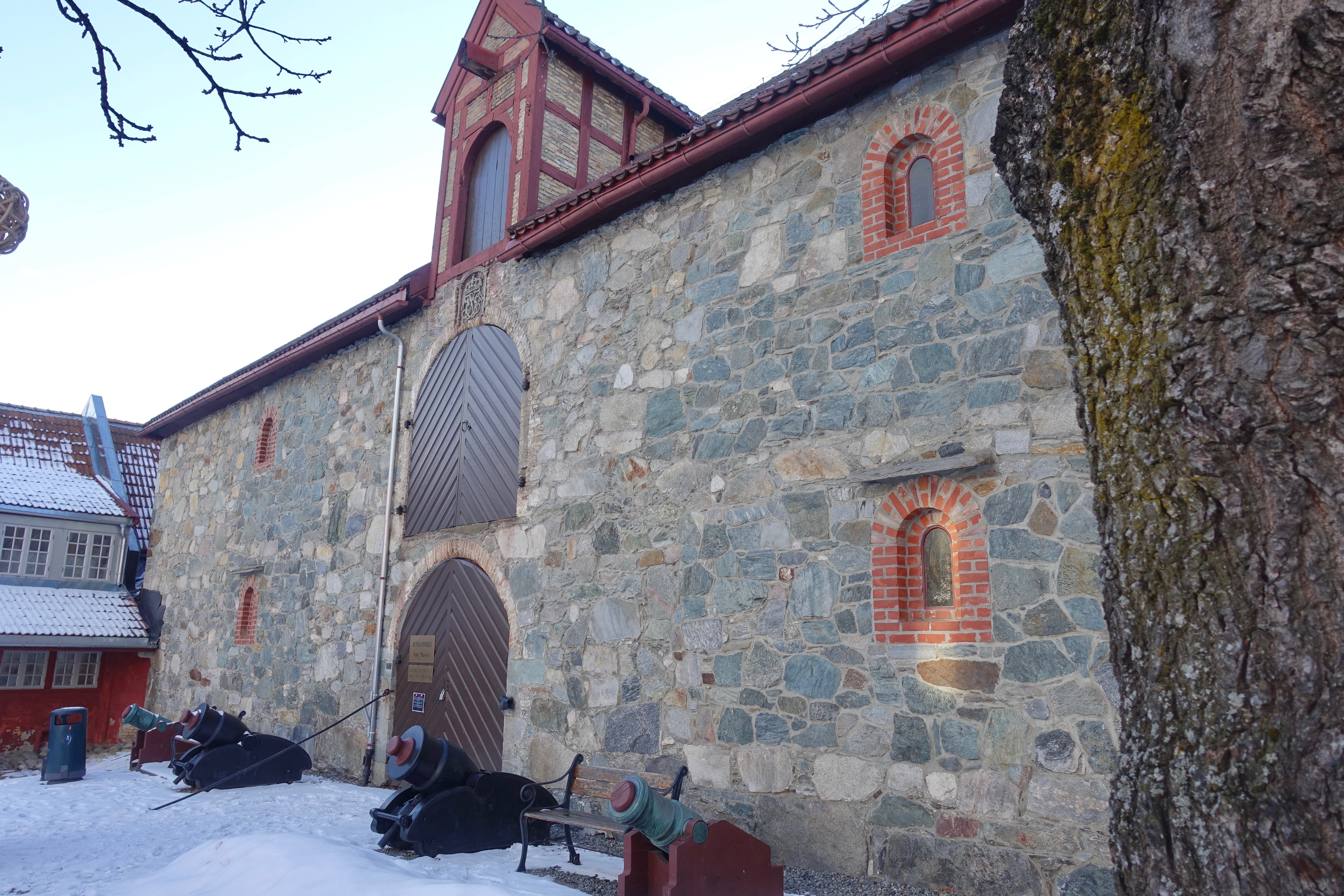 Closed entrance of "Rustkammeret" ("The Armoury") Army and Resistance Museum in Erkebispegården, Trondheim, Norway. 2018-03-11